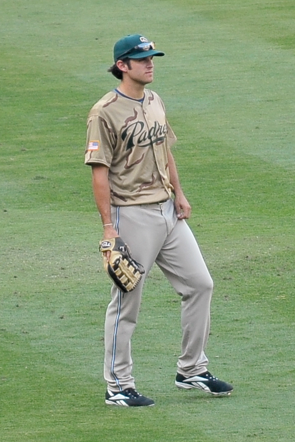 Drew Macias 09/14/2008 Left Field San Diego Padres